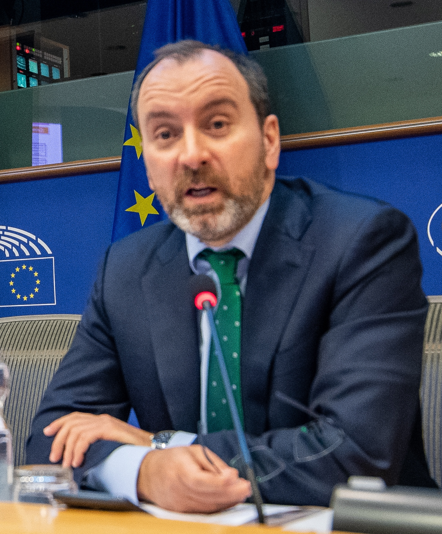 Andrès Rodriguez-Pose, Member of ICSE No Territory and no people left behind Joint conference of Progressive Society, The S&D Group in the European Parliament and the PES Group in the European Committee of the Regions Brussels, 7 February 2019